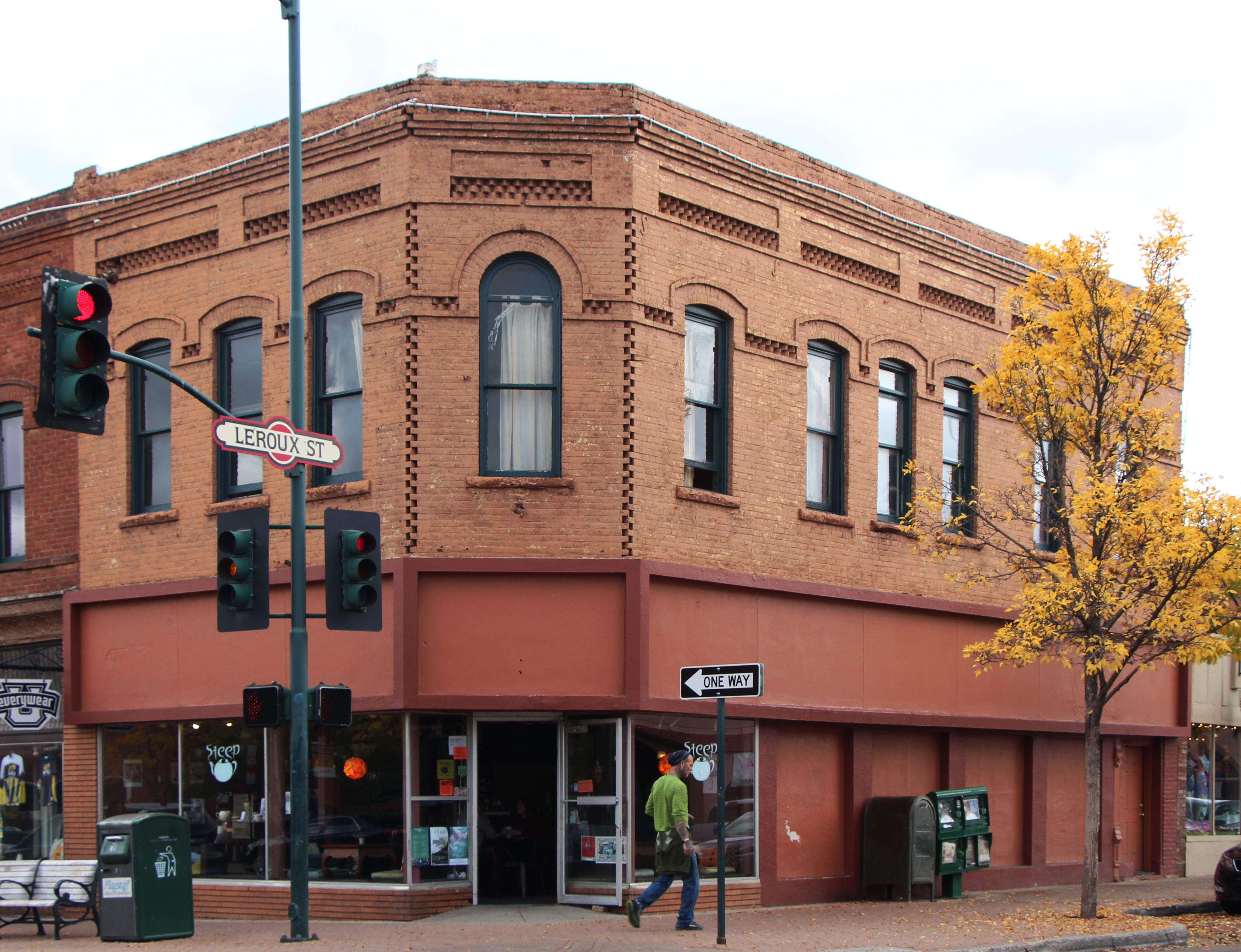 Coalter Building, 1 E Aspen Ave, Flagstaff, AZ